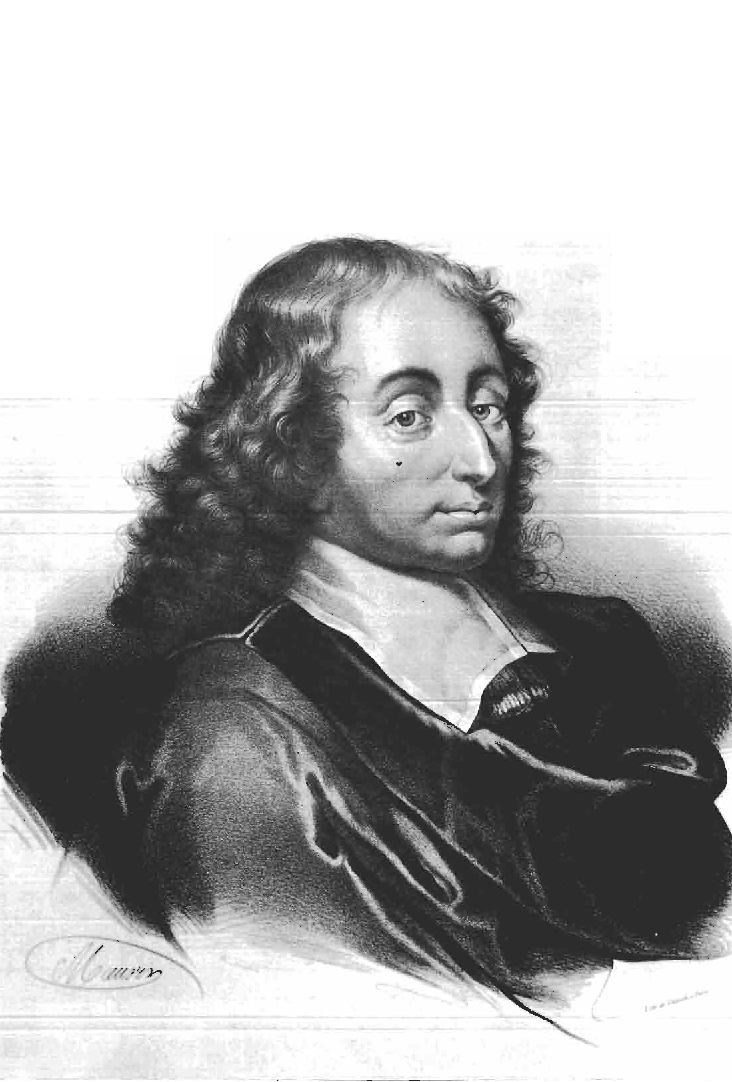 Blaise Pascal